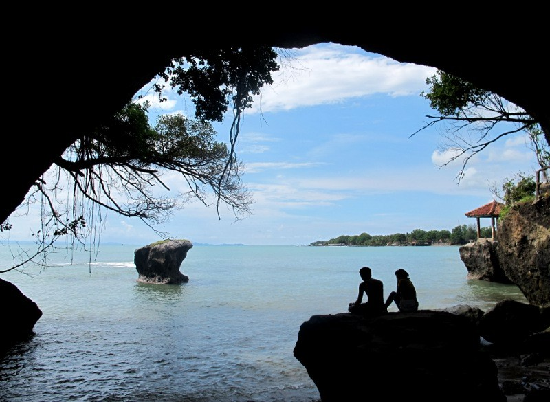 Karang Bolong is a giant hole overlooking the ocean in the mountain created by Mount Krakatoa's lava.